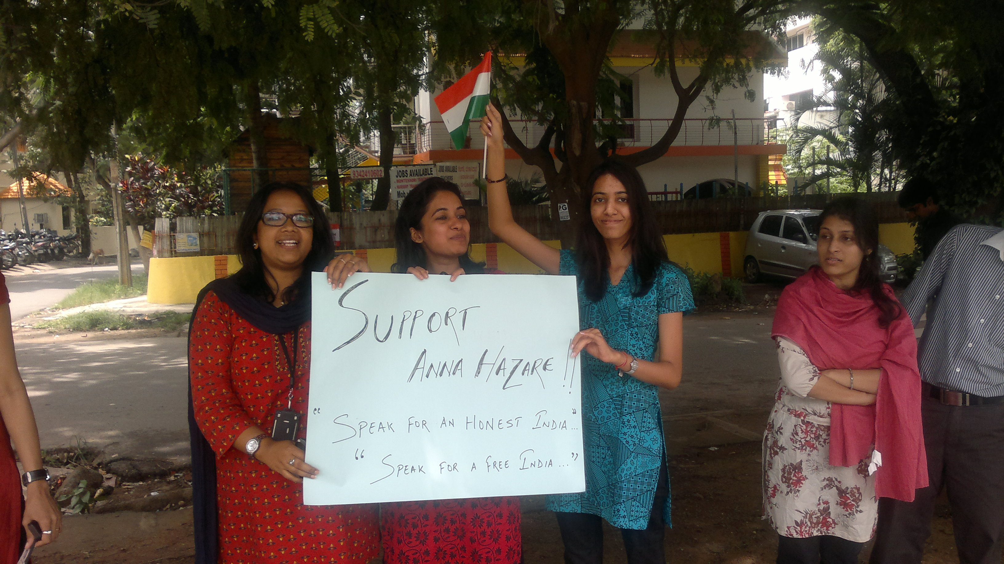 India Against Corruption - Protesters in Bangalore - 22nd August 2011